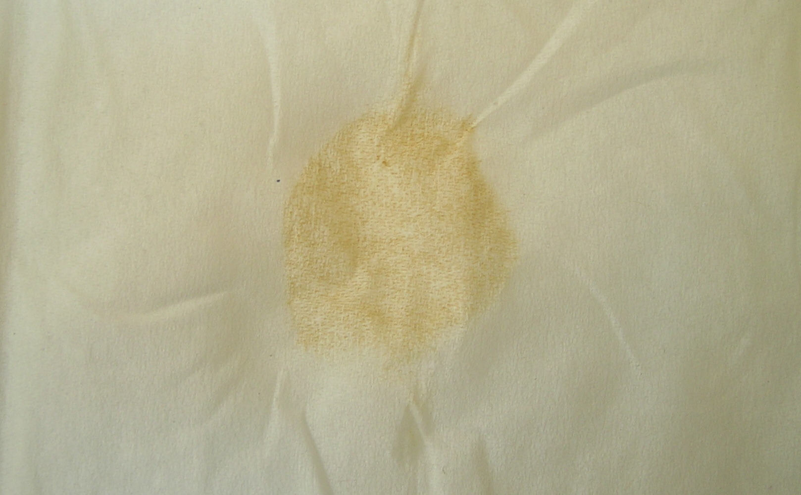 Cigarette smoke blown thru a handkerchief